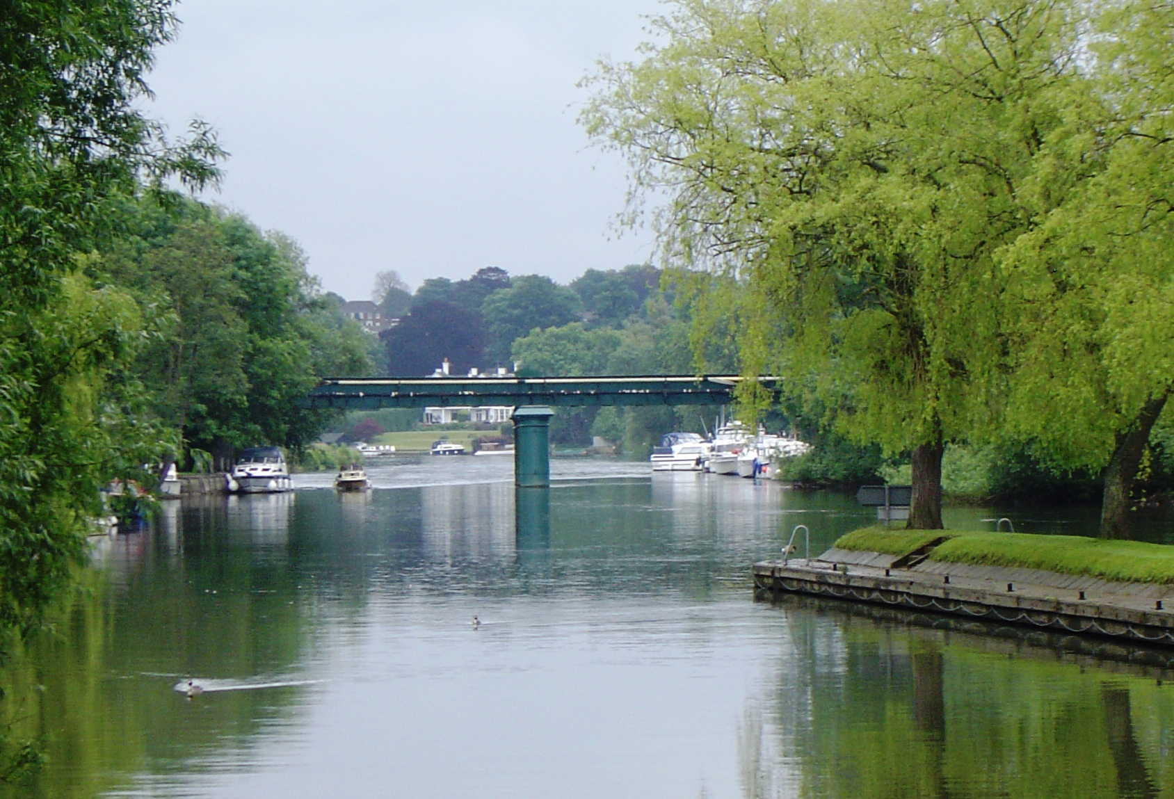 Shiplake Railway Bridge carrying the Henley branch line over the River Thames between Berkshire and Oxfordshire